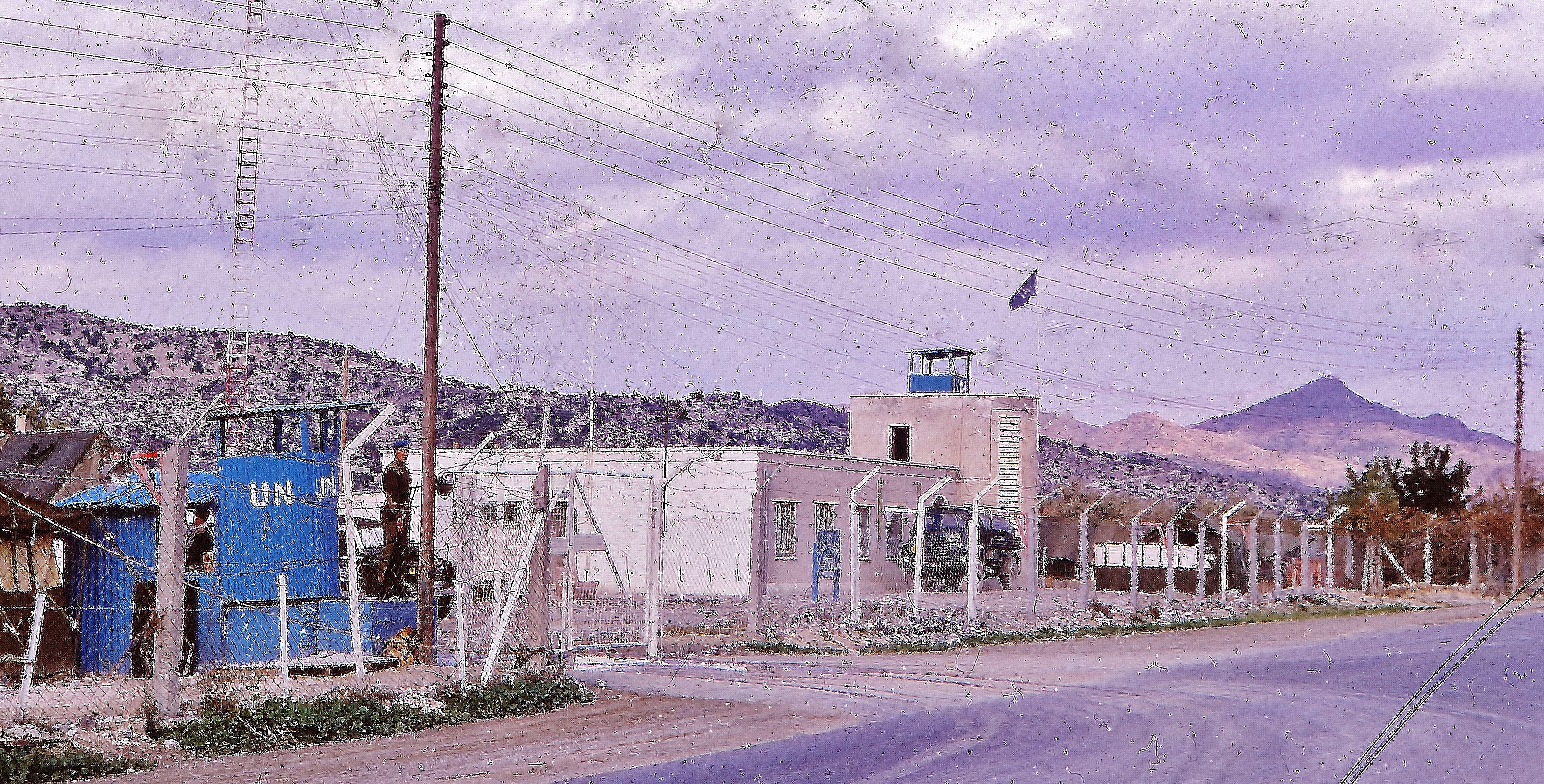 Entrance to UN Camp at Kophinou village manned by soldiers of 3rd Battalion, The Royal Anglian Regiment. Kophinou is at the junction of the B1 and the B5 roads roughly half way between Limassol and Larnaca. On 15 November 1967, Greek Cypriot National Guard under Grivas' direct command had overrun two small villages on the critical Larnaca, Limassol, Nicosia intersection, resulting in the deaths of 27 Turkish Cypriot people at Kofinou and Agios Theodoros.